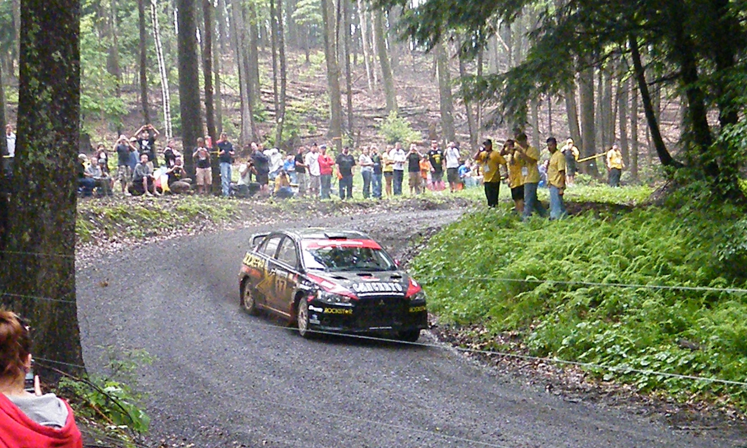 Antoine L'Estage and co-driver Nathalie Richard in their 2009 Mitsubishi Lancer Evo X at the 2010 Susquehannock Trail Performance Rally in Pennsylvania. Round 5 of the 2010 Rally America National Championship.